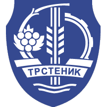 Coat of Arms of the city and municipality of Trstenik, Serbia